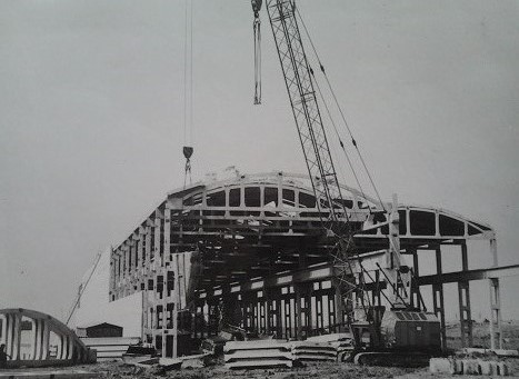 JSC "Utenos gelžbetonis" building site